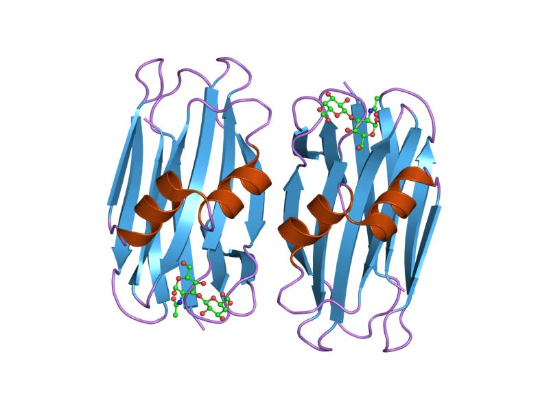 Cartoon representation of the molecular structure of protein registered with 1y2u code.